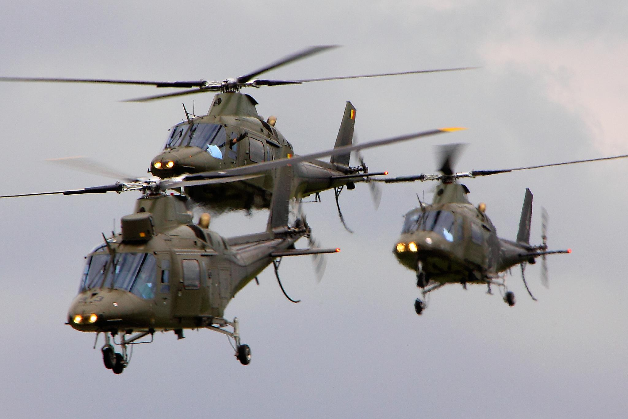 A109s - RIAT 2012